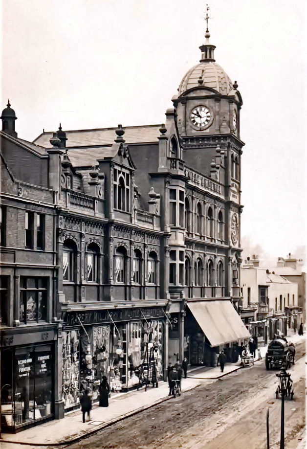 View of the southwestern section of Powis Street in Woolwich, south east London, UK, on a postcard from 1907. The Co-op Central Stores is only half finished.